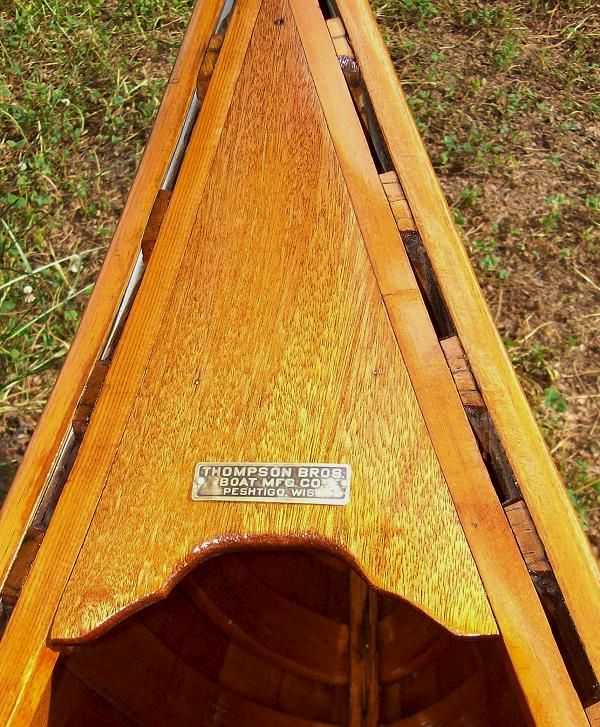 Thompson nameplate on deck of canoe